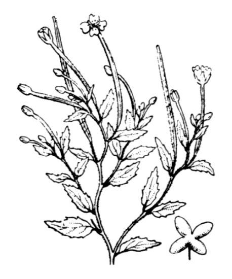 Epilobium collinum